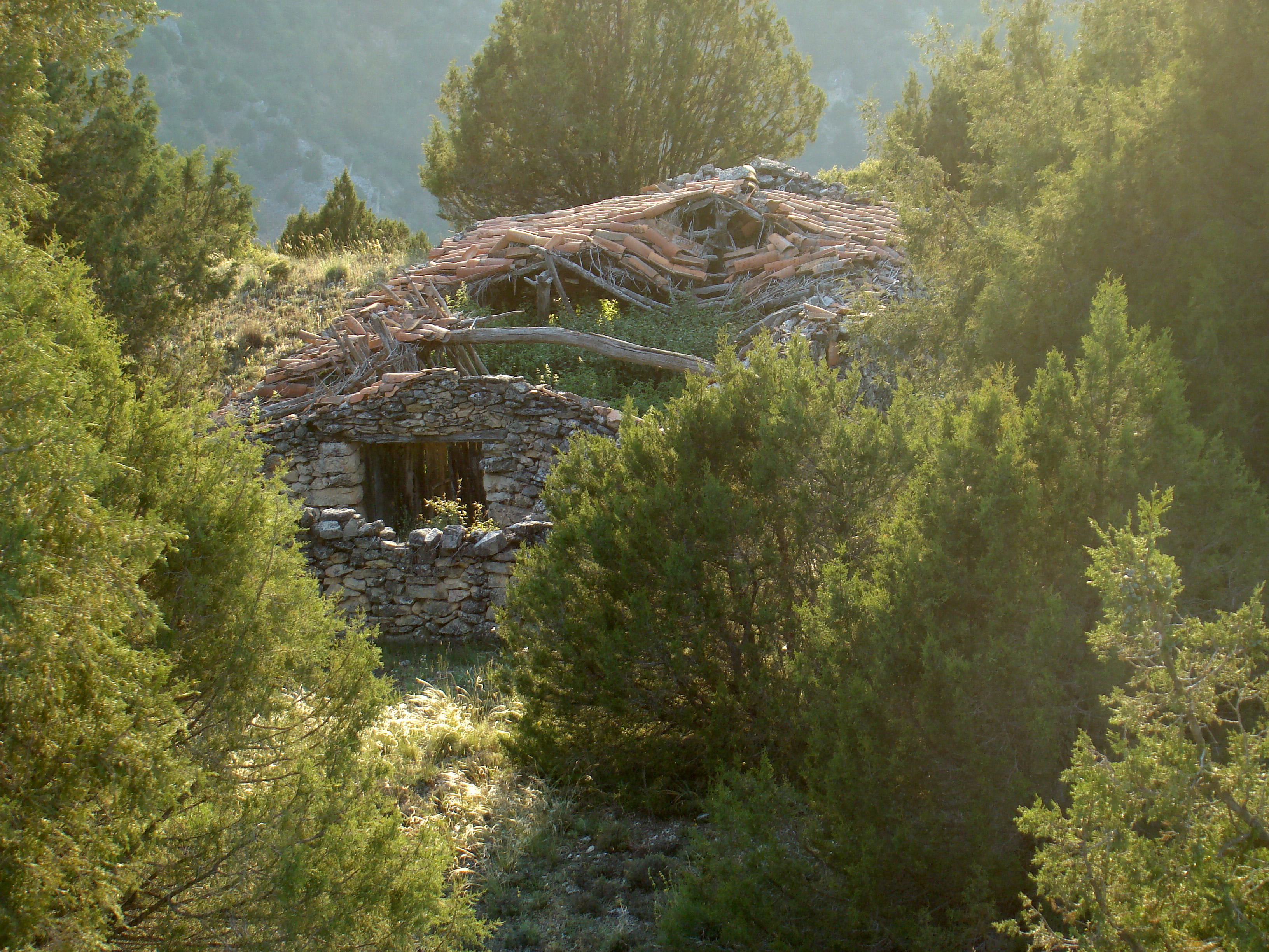 Ruins of a stockpen in the woods in Huertahernando, in the province of Guadalajara, Spain.